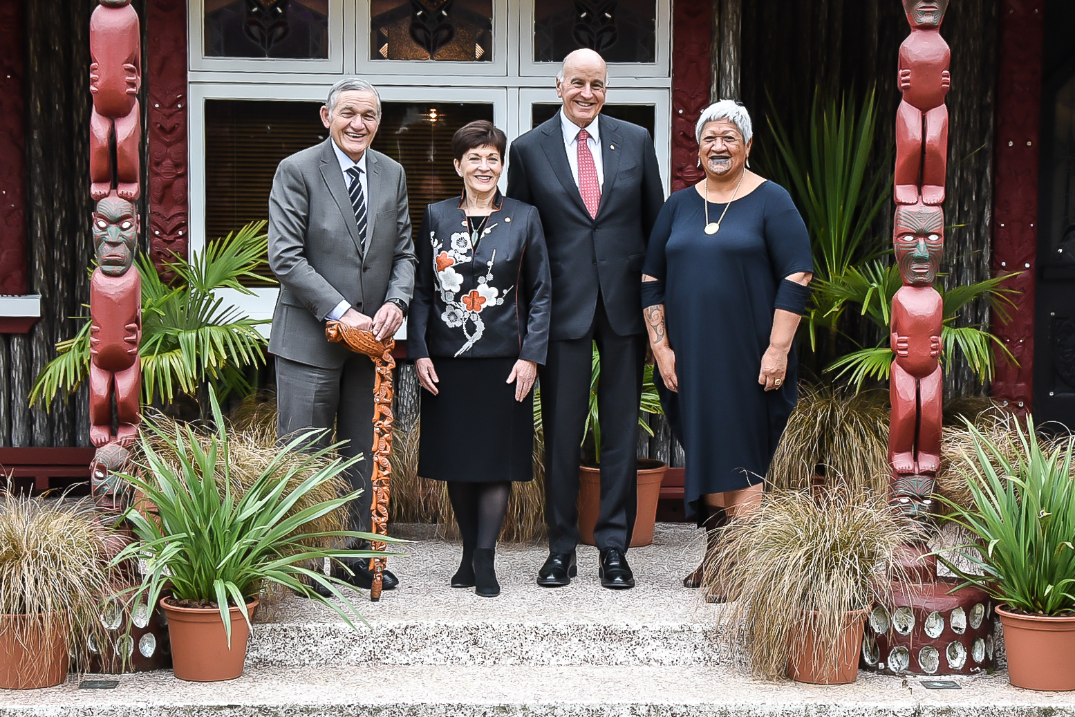 Kīngi Tūheitia, Dame Patsy Reddy, Sir David Gascoigne, and Makau Ariki Atawhai, at the 2019 Koroneihana celebrations, Tūrangawaewae Marae, on 18 August 2019.